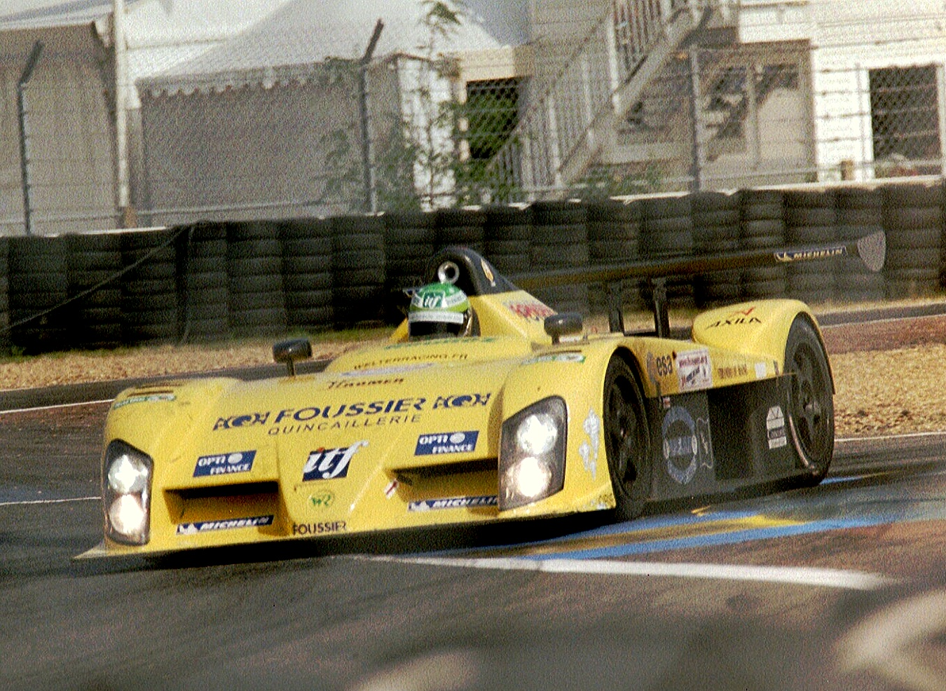 WR LMP-02 Prototype with Nr.25 driven by Stephane Dauodi, Jean-Rene de Fournoux & Bastien Briere at Ford Chicane at the 2003 24 Hours of Le Mans